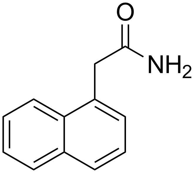 chemical structure of naphthaleneacetamide